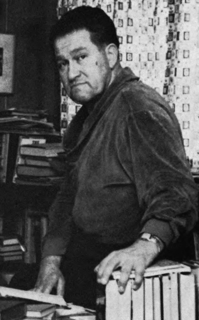 August Derleth at his desk